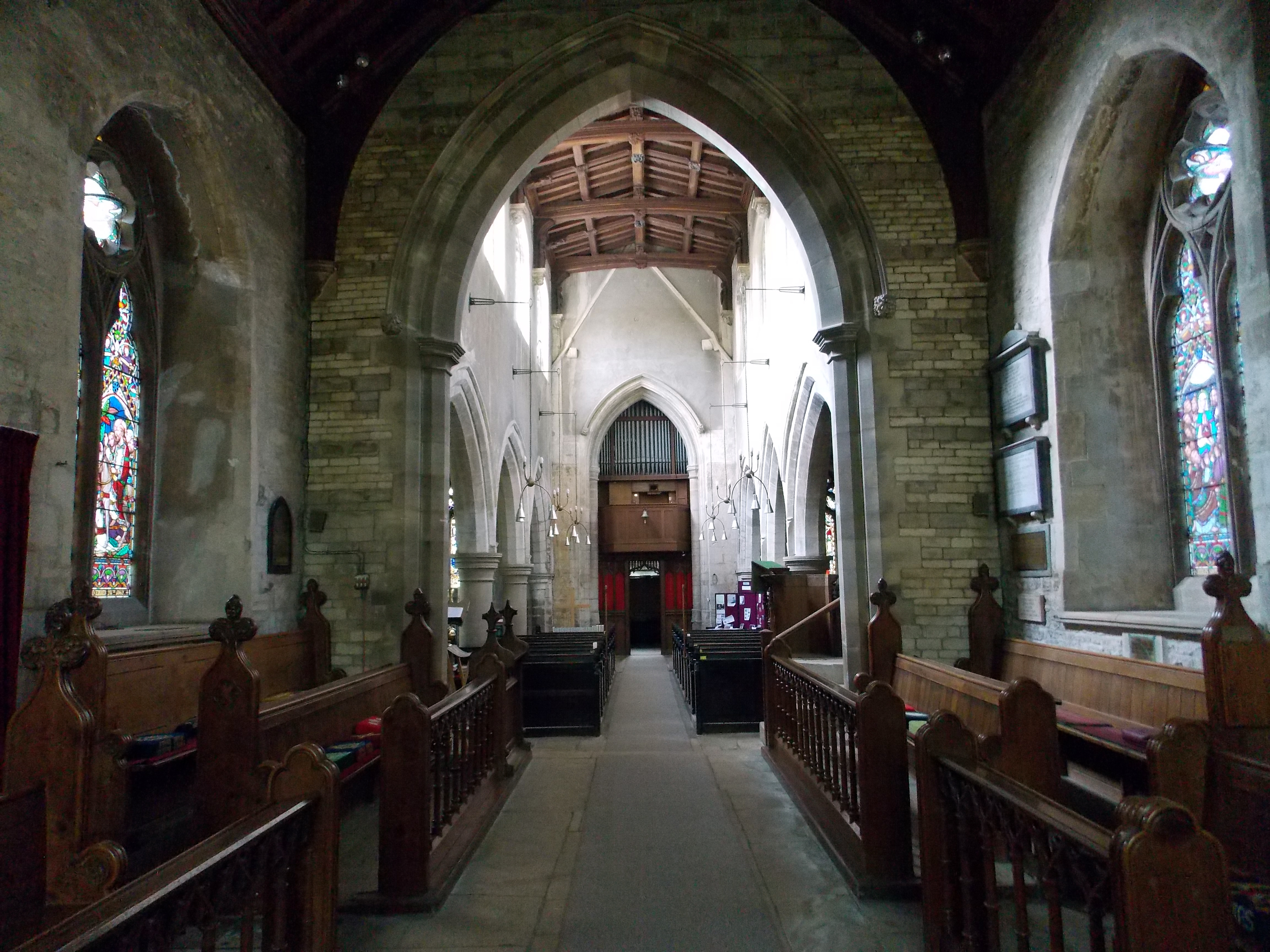 St Nicholas' parish church, Fulbeck, Lincolnshire: view west from the chancel to the nave